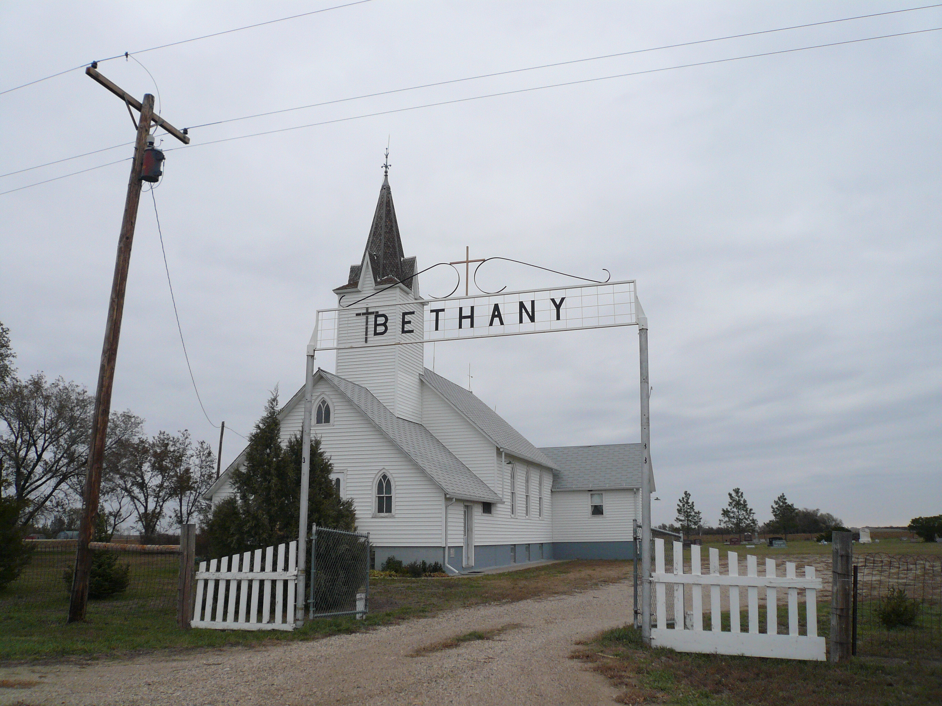 Bethany Lutheran church - P1020001.JPG. Selby, South Dakota